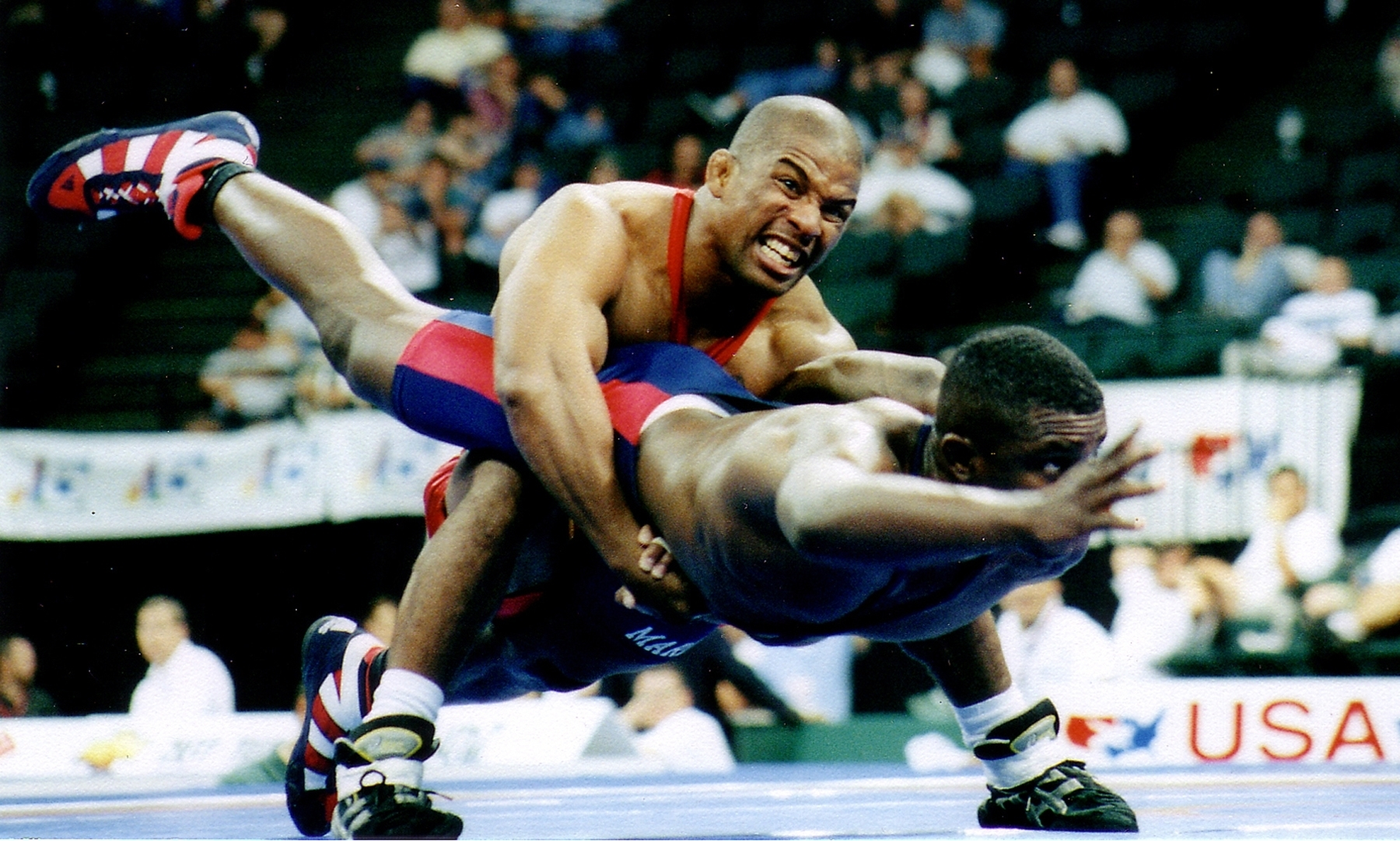 April 24, 2007 Staff Sgt. Shon Lewis (top) lifts Marine Corps Staff Sgt. James Shillow during Lewis' final wrestling match during the 2000 U.S. Olympic Team Trials at Reunion Arena in Dallas. Staff Sgt. Lewis left his wrestling shoes on the mats after that match, signaling the end of his competitive career. He since has been named USA Wrestling's Greco-Roman Coach of the Year three times.